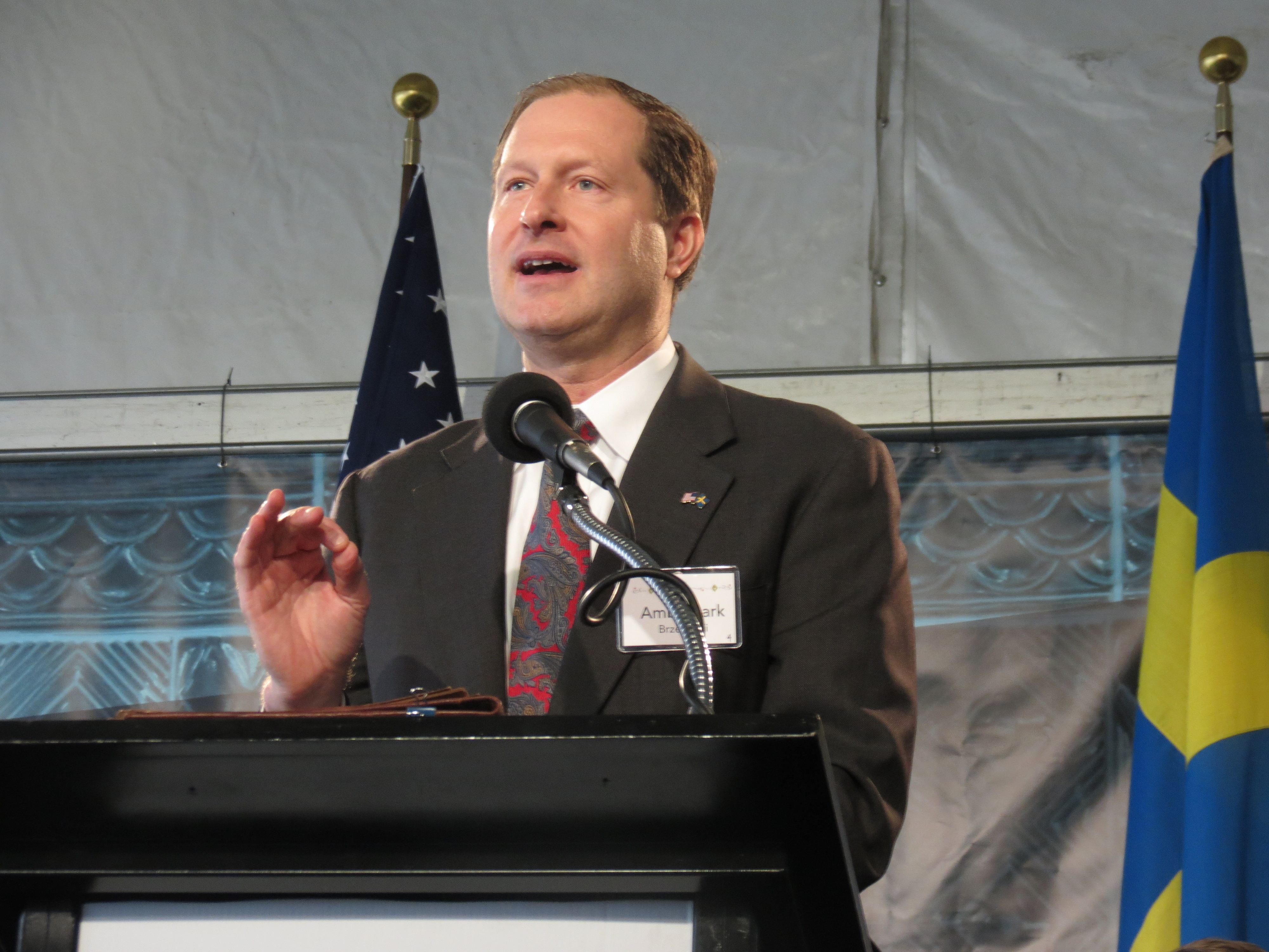 Mark Brzezinski Ambassador's visit to Minnesota Ambassador Brzezisnki spent a busy few days in Minnesota, kicking it off with a visit to the University of Minnesota's Humphrey School of Public Affairs, where he and Dean Eric Schwartz speak with students. Later, Ambassador Brzezinski joined Swedish Ambassador to the U.S. Jonas Hafström to celebrate the Gustavus Adolphus College's 150th anniversary at a dinner with Their Majesties King Carl XVI Gustaf and Queen Silvia of Sweden. Ambassador Brzezinksi also spoke at the American Swedish Institute's dedication of its new Nelson Cultural Center in Minneapolis.